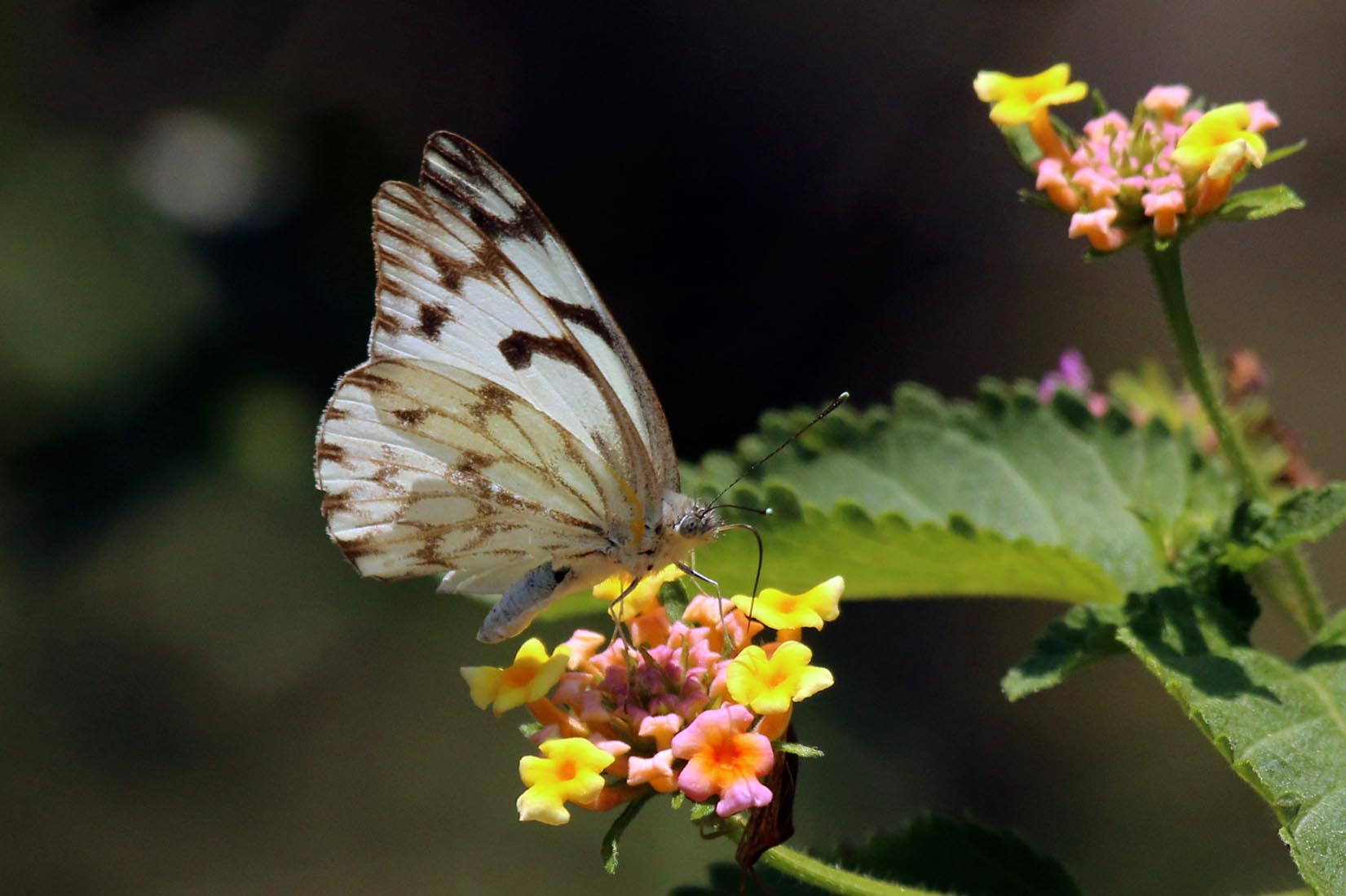 Brown-veined white butterfly (Belenois aurota aurota) female, uMkhuze Game Reserve, KwaZulu Natal, South Africa